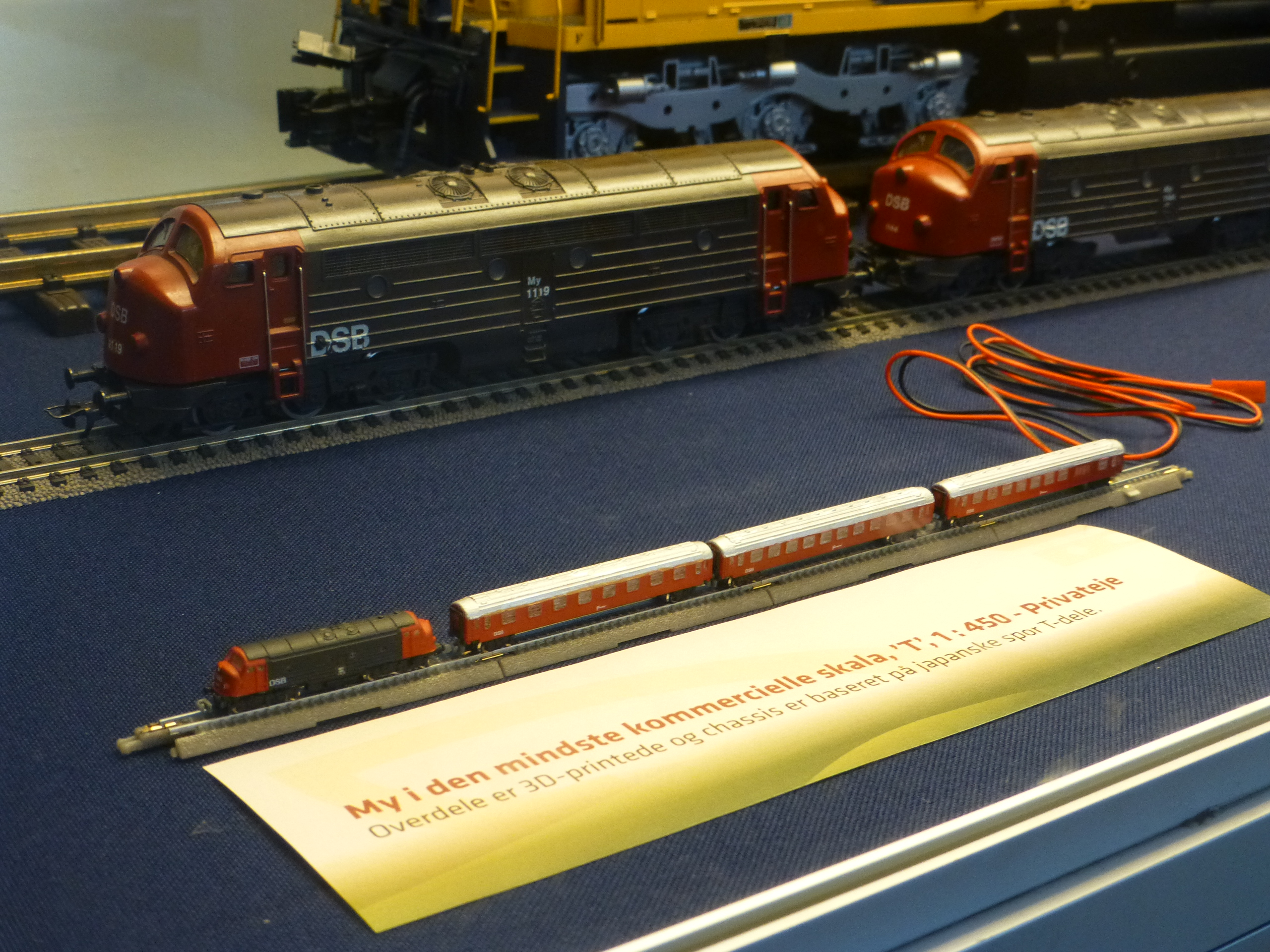 Celebration of 60 years with GM locomotives in Denmark at Danmarks Jernbanemuseum. Models of diesel locomotives DSB MY in H0 (1:87) and T (1:450).